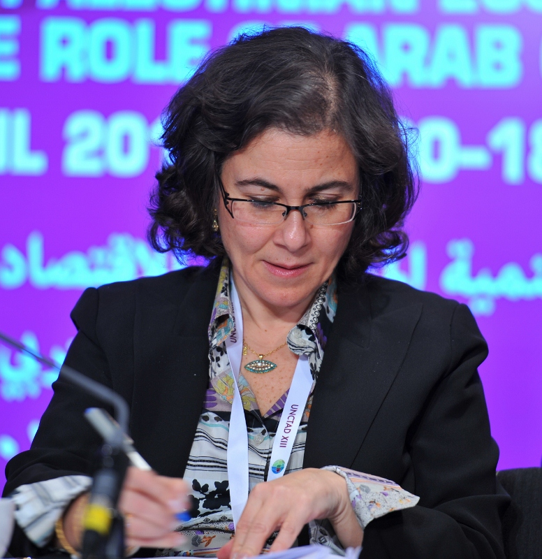 Ms. Nada Al-Nashif, Assistant Director-General, International Labour Office